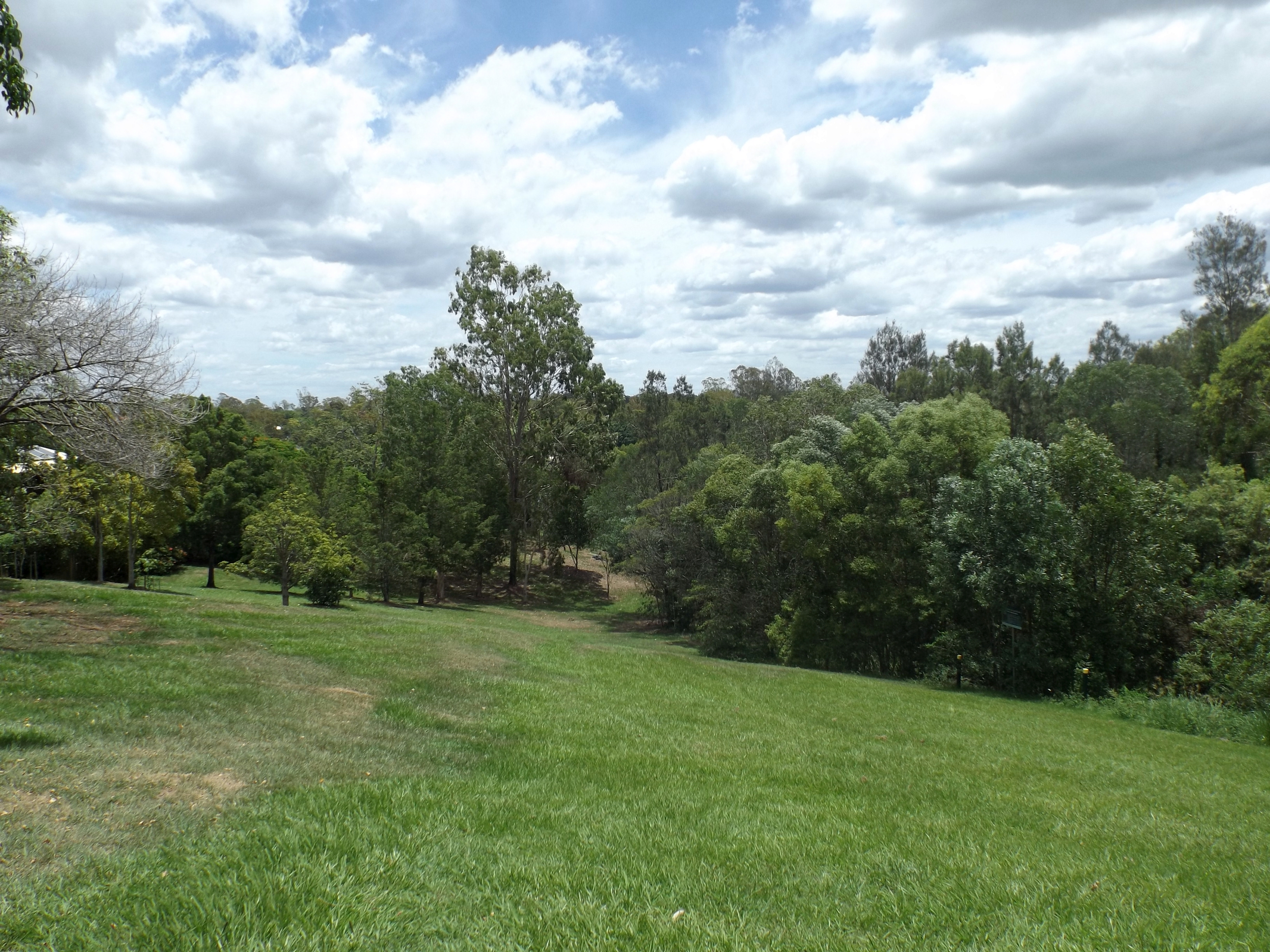 Photo of view from the carpark along Dewar Terrace at John Herbert Memorial Vista in Sherwood, Brisbane, Queensland, Australia.